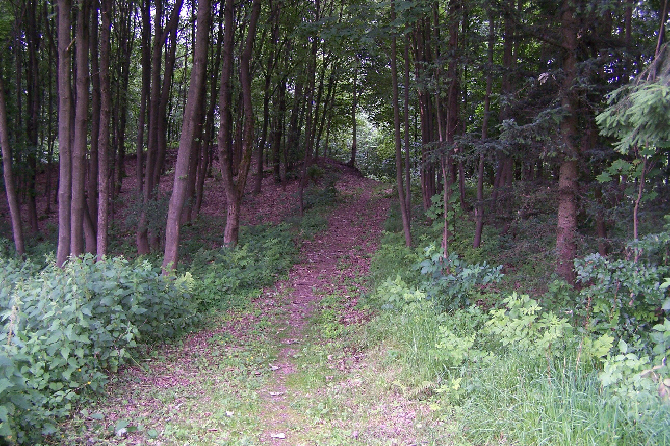 At the inner wall of Brotterode castle.